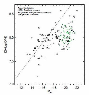 This is a graph taken as a screenshot taken from a publication on . The author of this publication, Ricardo Amorin, has given me permission to use it and as an arXiv publication it is available for free use under Creative Commons Attribution-Noncommercial-ShareAlike license ( The screenshot was edited by Richard Nowell who has uploaded it for use in the article entitled Pea Galaxy. R.Amorin's email is: .Richard Nowell (talk) 11:47, 9 June 2011 (UTC)